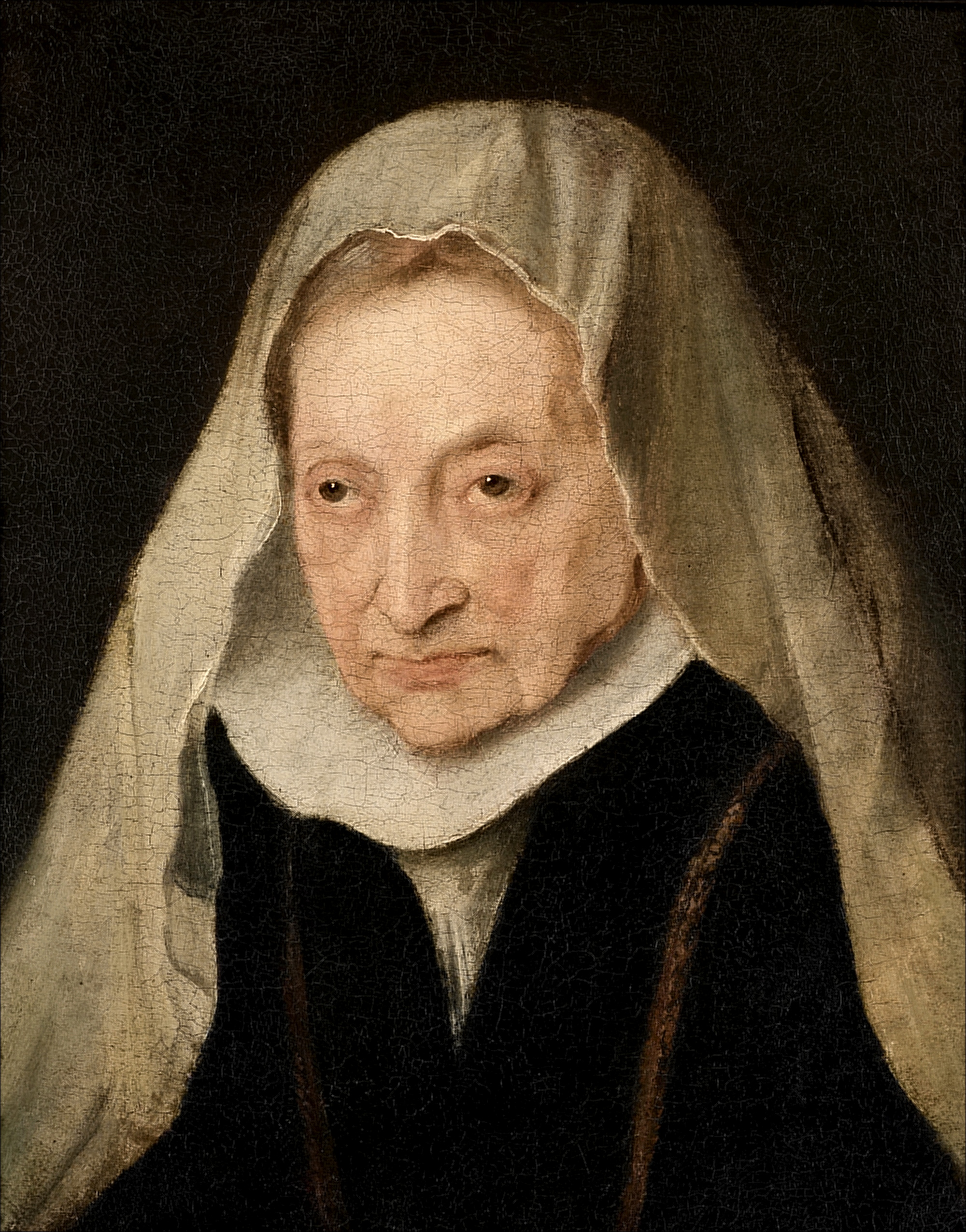 A fragment of a larger portrait that has been cut down on all sides, Sofonisba Anguissola (1624) is touching evidence of the young artist’s encounter with an aged celebrity painter.